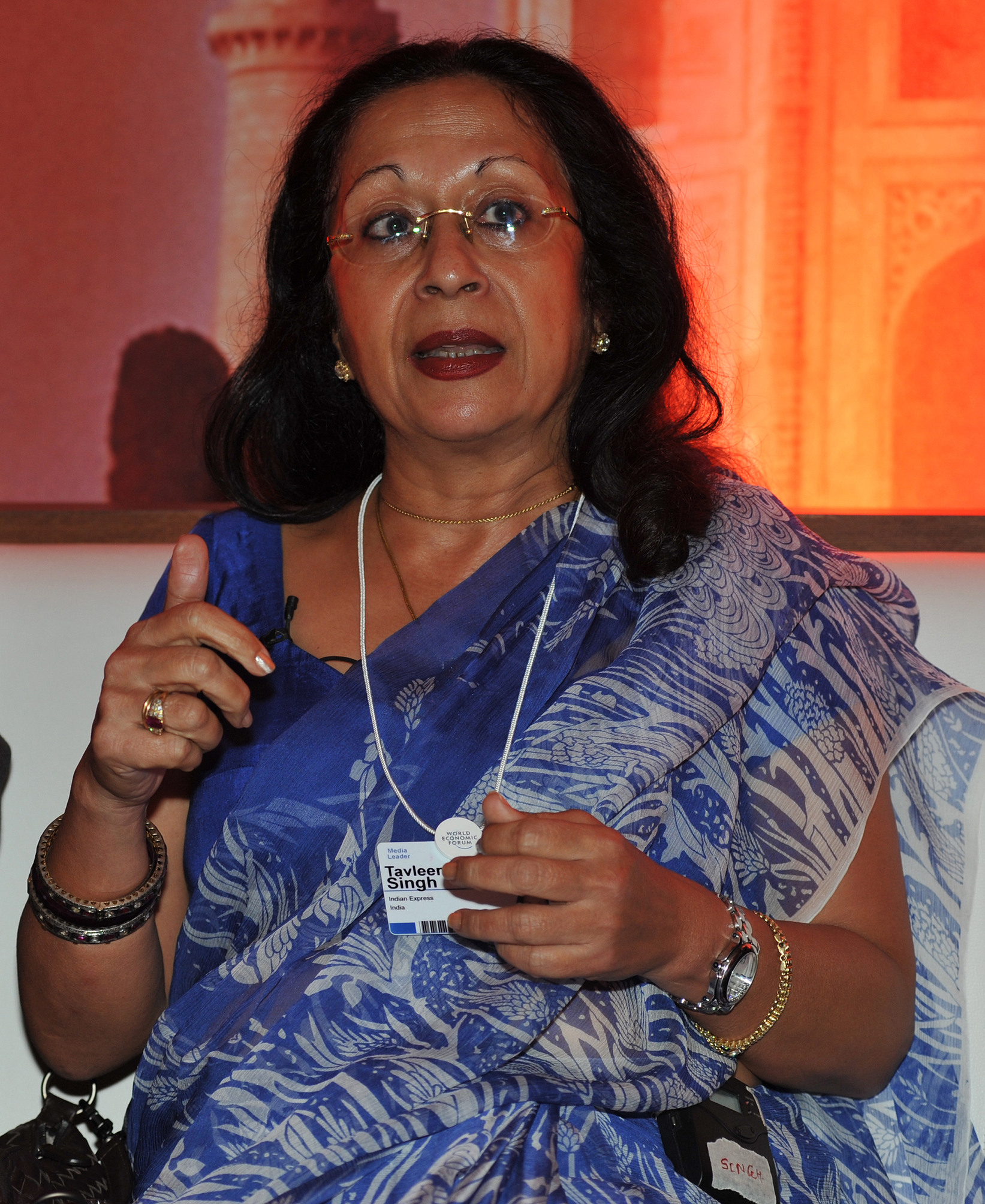 MUMBAI/INDIA, 14NOV11 - Tavleen Singh at the "The Power and Pitfalls of Popular Media?" session during the India Economic Summit 2011 in Mumbai, India, 12-14 November, 2011. Copyright World Economic Forum ( / Eric Miller